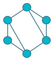 a 2-edge-connect graph